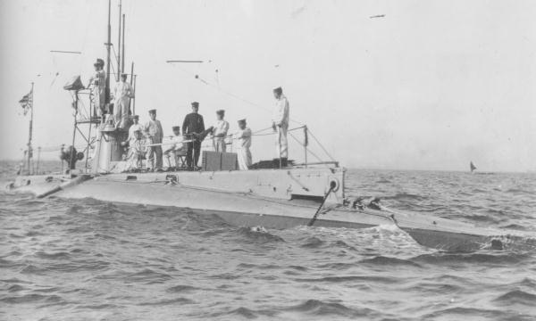 Japanese submarine No.9 (C1-class), renamed to HA-2 in 1923.